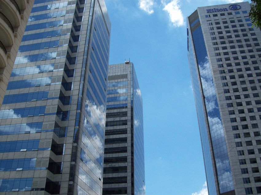 Centro Empresarial Nações Unidas in São Paulo City.